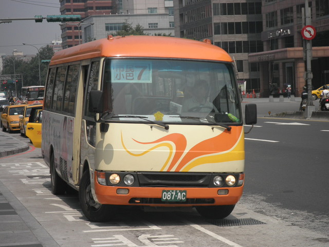 MTC Bus 087AC M7